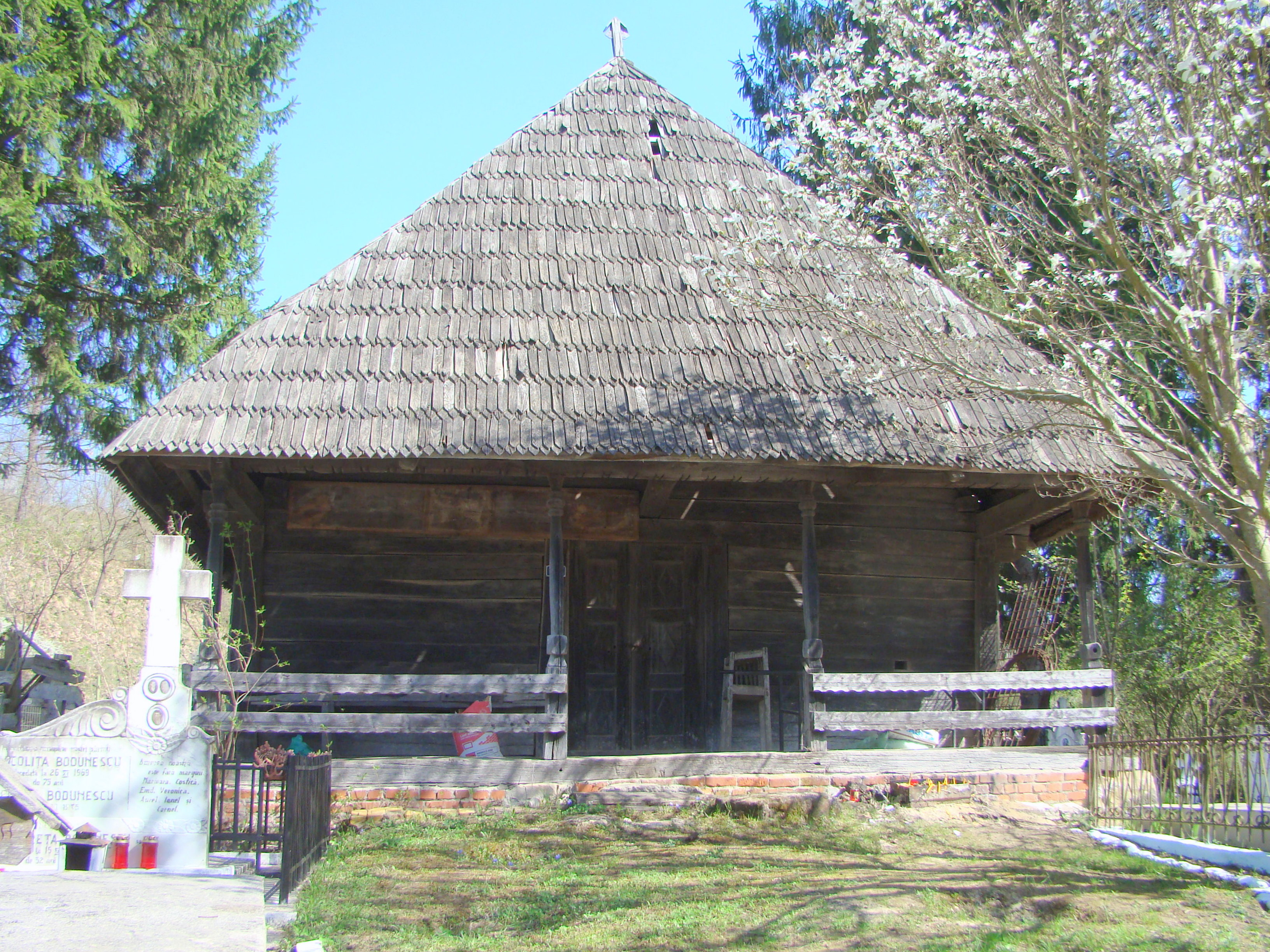 Wooden church in Tupșa, Gorj county, Romania